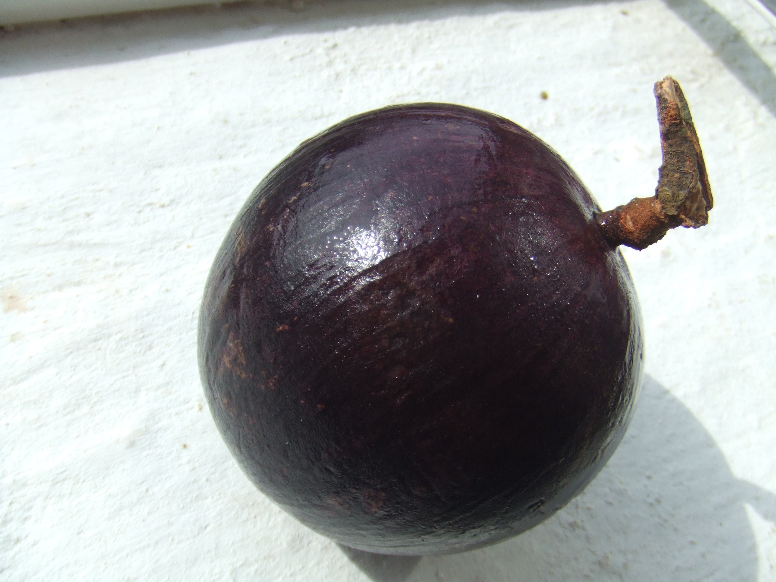 Chrysophyllum cainito, bought at Surinam tropical supermarket, Nieuwe Binnenweg, Rotterdam